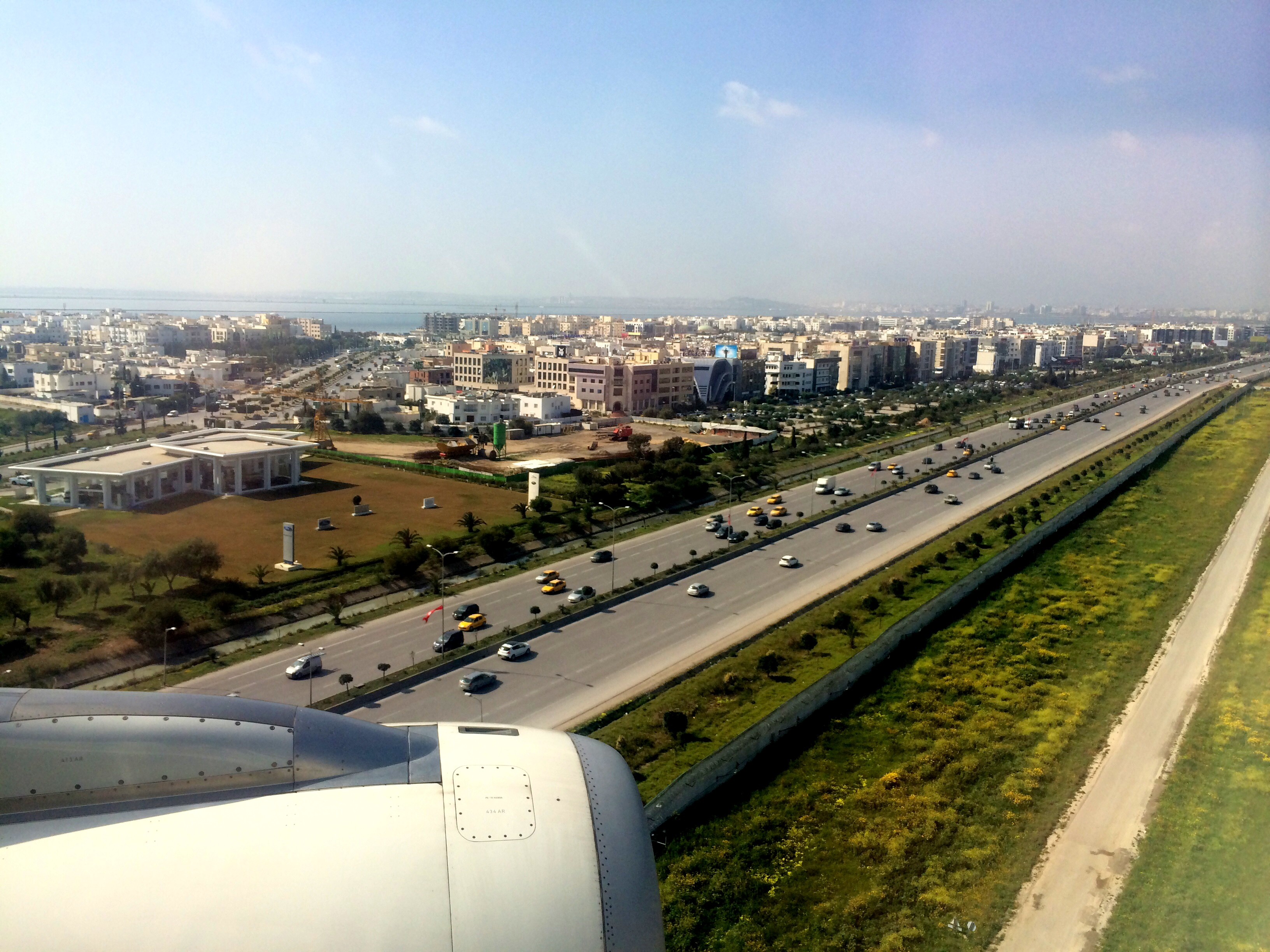 Route Tunis_Marsa